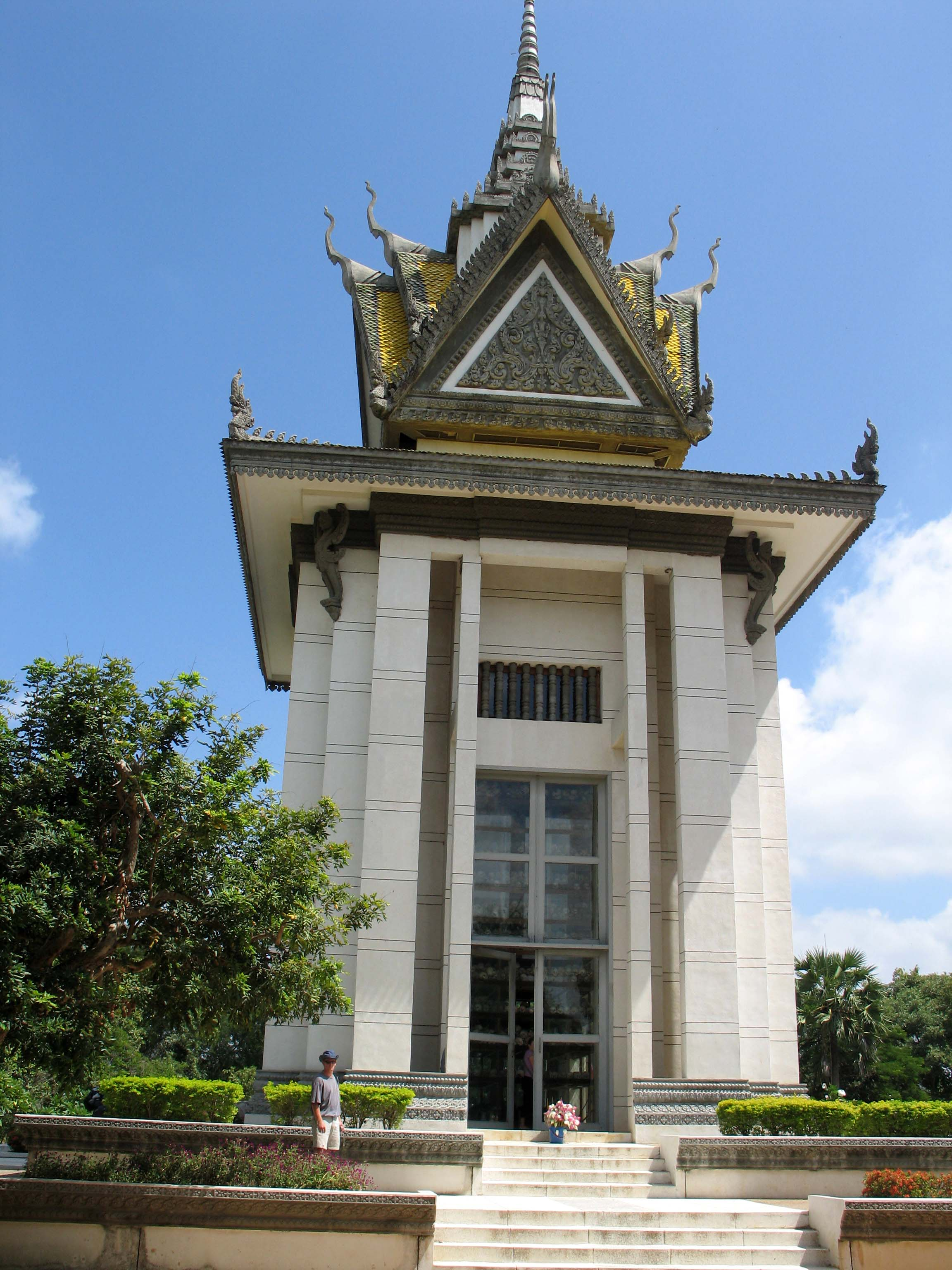 Photographed and uploaded to English Wikipedia by Michael Darter